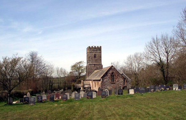 St Michael and All Angels parish church, Loxhore, Devon, seen from the southeast